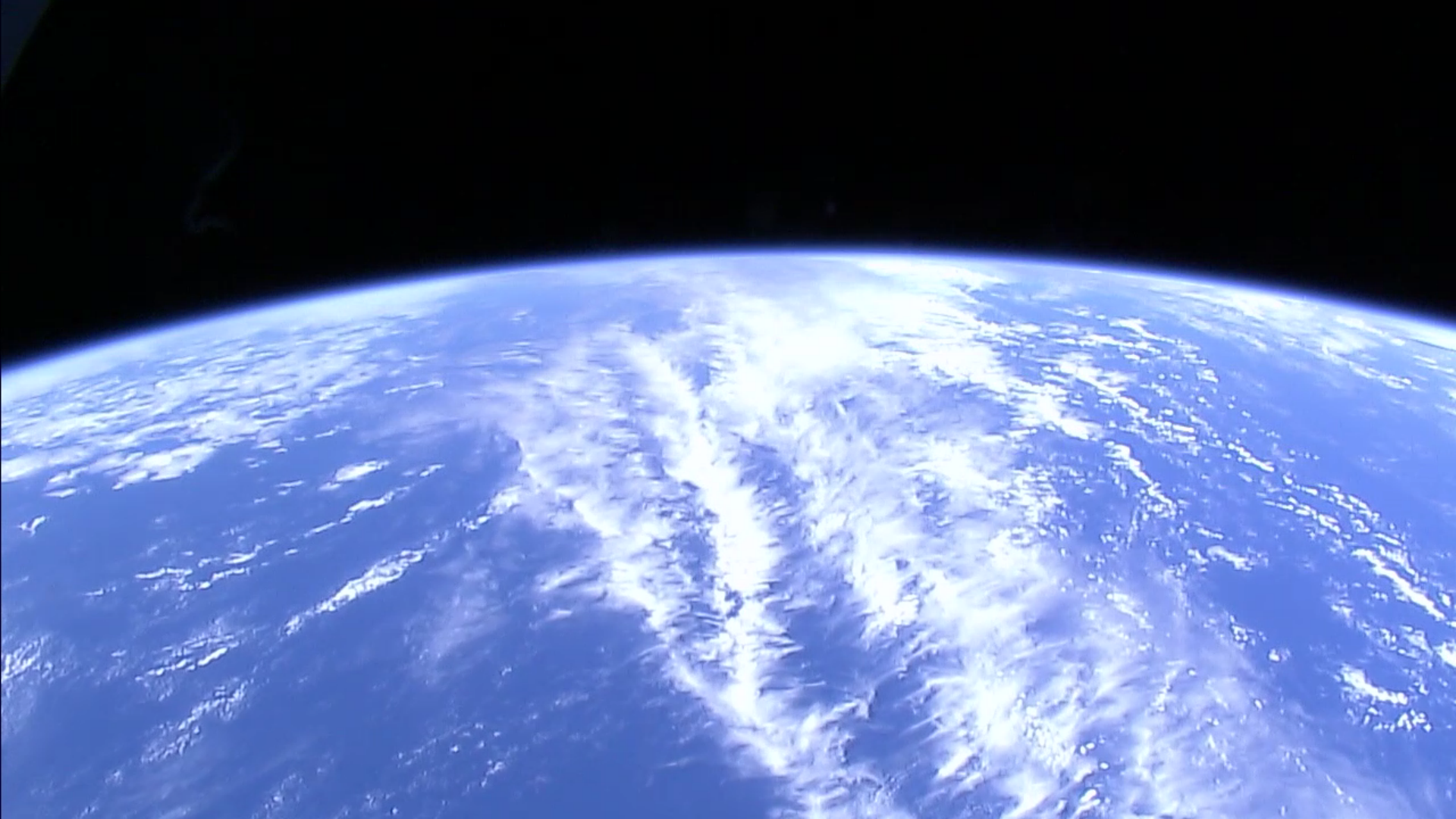 Screenshot from NASA High Definition Earth Viewing (HDEV) experiment videostream. The High-Definition Earth Viewing camera is mounted on the ISS. The picture shows clouds covering South Atlantic Ocean.